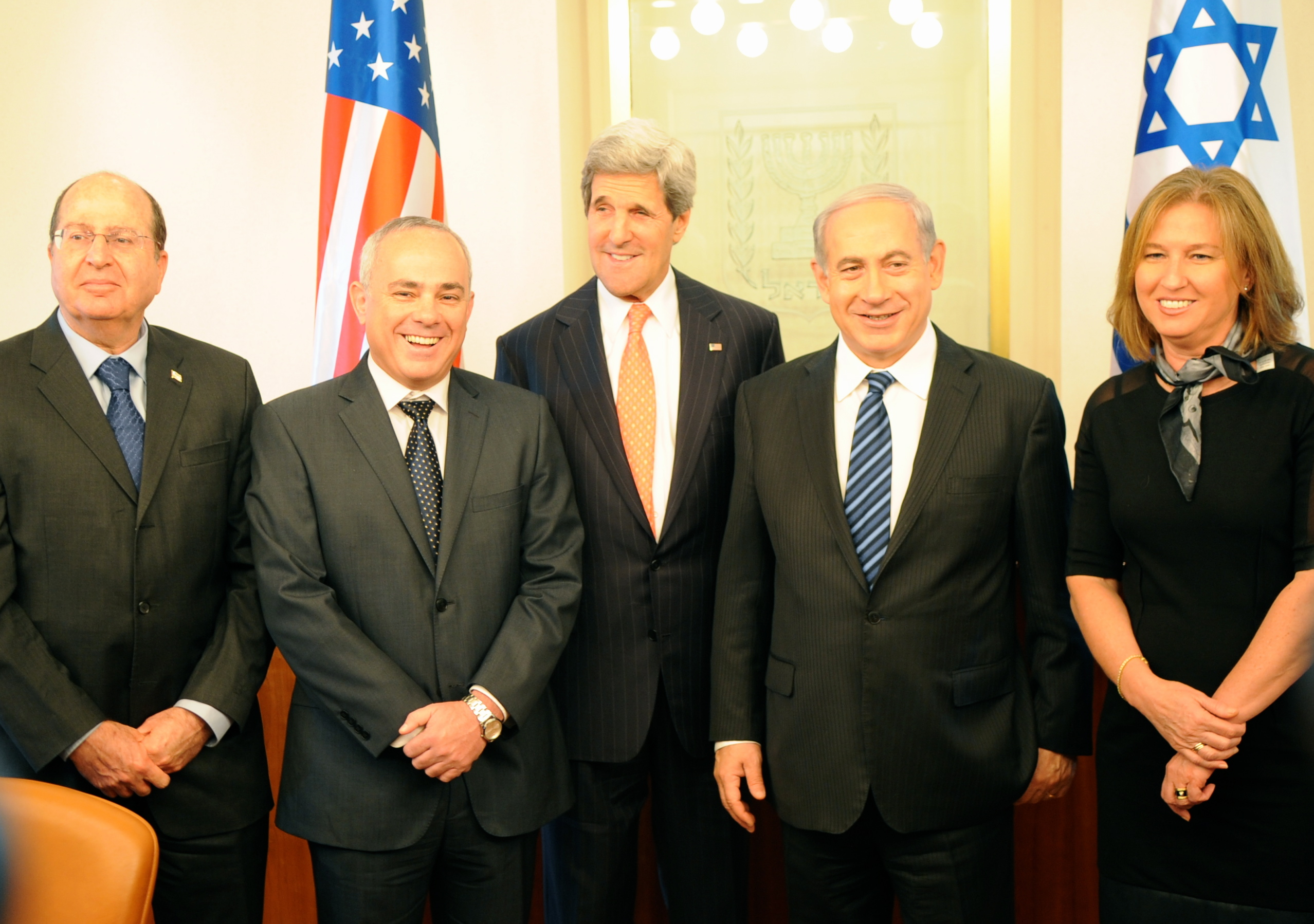 U.S. Secretary of State John Kerry poses with members of the Israeli government before a meeting in Jerusalem on May 23, 2013. They are, from left, Defense Minister Moshe Yaalon; Minister of International Relations, Strategic Affairs and Intelligence Yuval Steinitz; Prime Minister Benjamin Netanyahu; and Justice Minister Tzipi Livni. [State Department Photo/Public Domain]